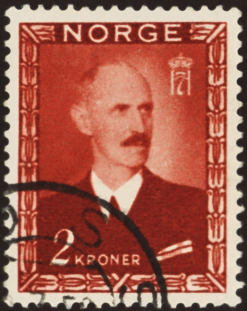 Stamp of Norway; 1946: definitive stamp of the issue "King Haakon VII"; portrait with Royal logo; postmarked Stamp: Michel: No. 317; Yvert & Tellier: No. 287; AFA: No. 331; Scott: No. 277 Color: brown red Watermark: none Nominal value: 2 Kroner Postage validity: from 7 June 1946 Stamp picture size: 21.0 x 27.5 mm